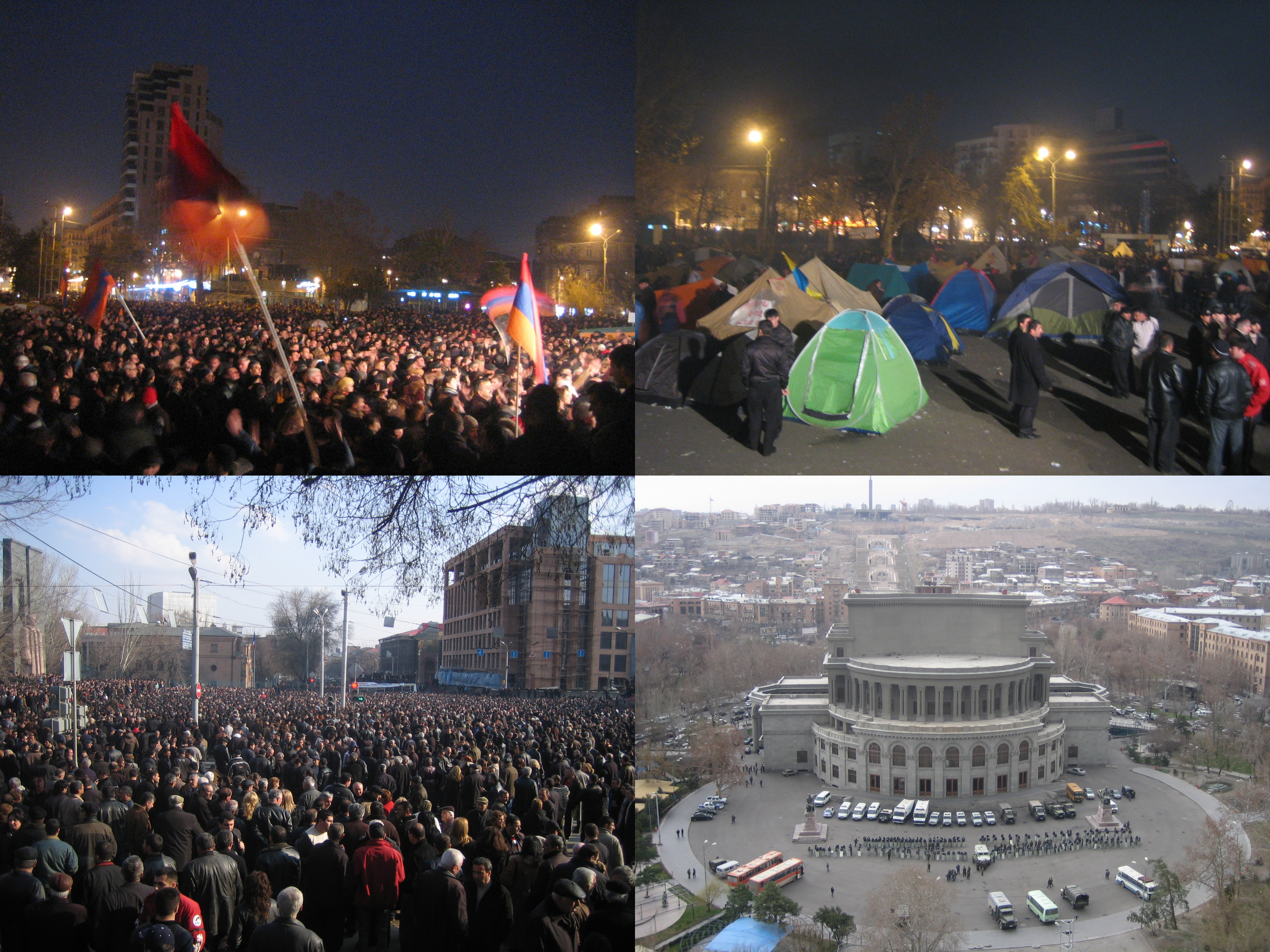 English